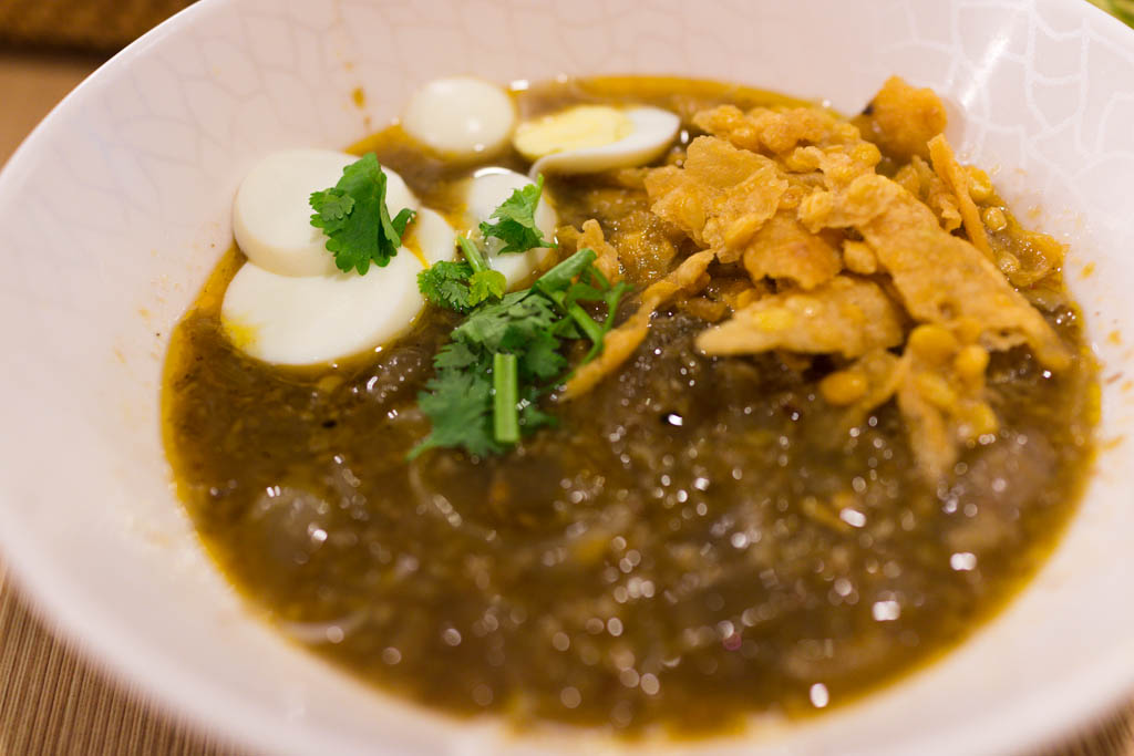 Mohinga, traditional Burmese soup.